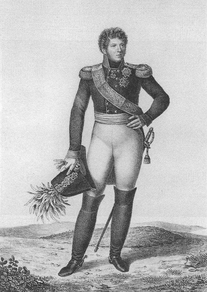 Karl Ludwig Friedrich, Grand Duke of Baden (July 8, 1786 in Karlsruhe-December 8, 1818 in Rastatt)